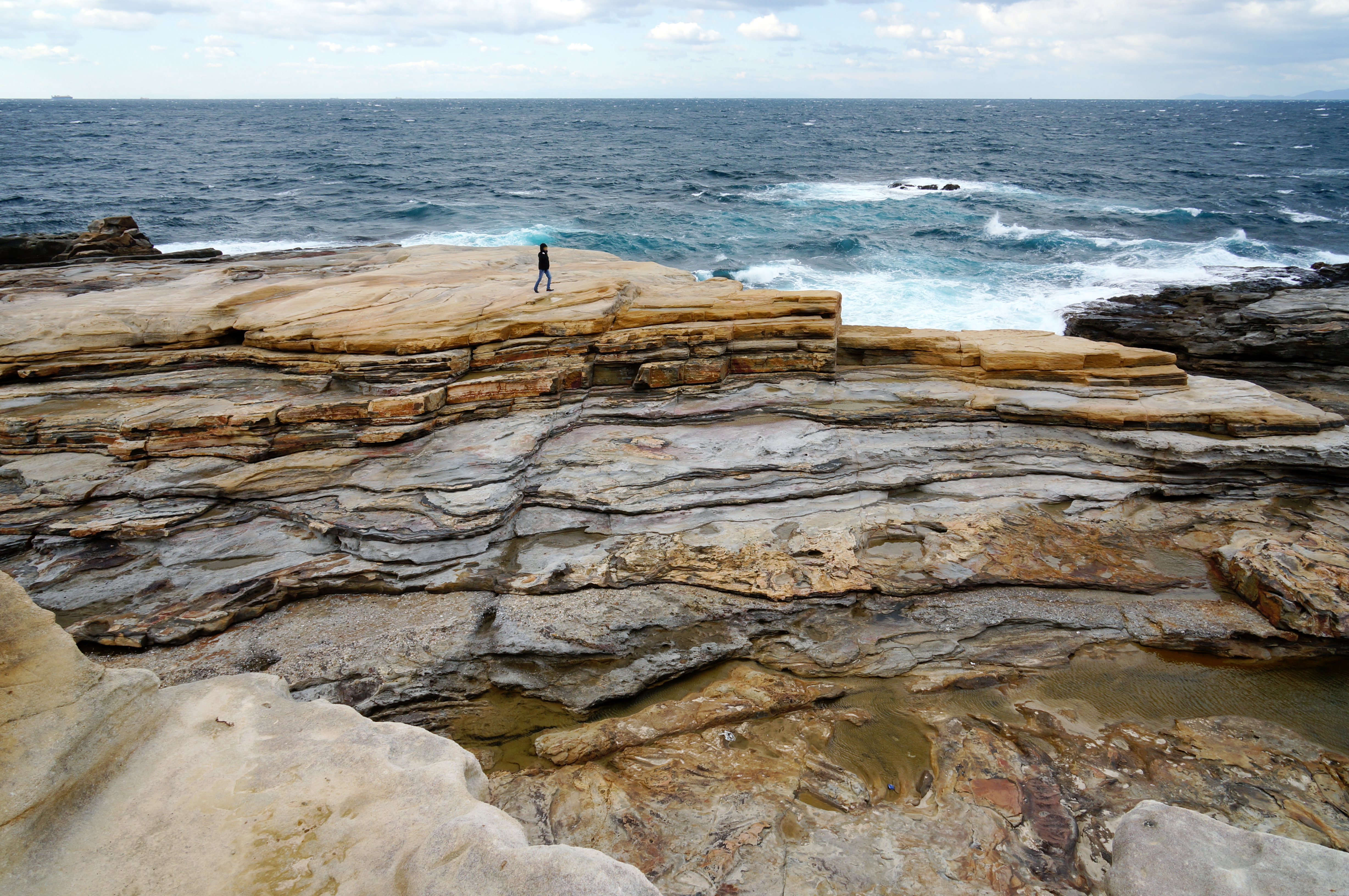 Senjōjiki in Shirahama, Wakayama prefecture, Japan.